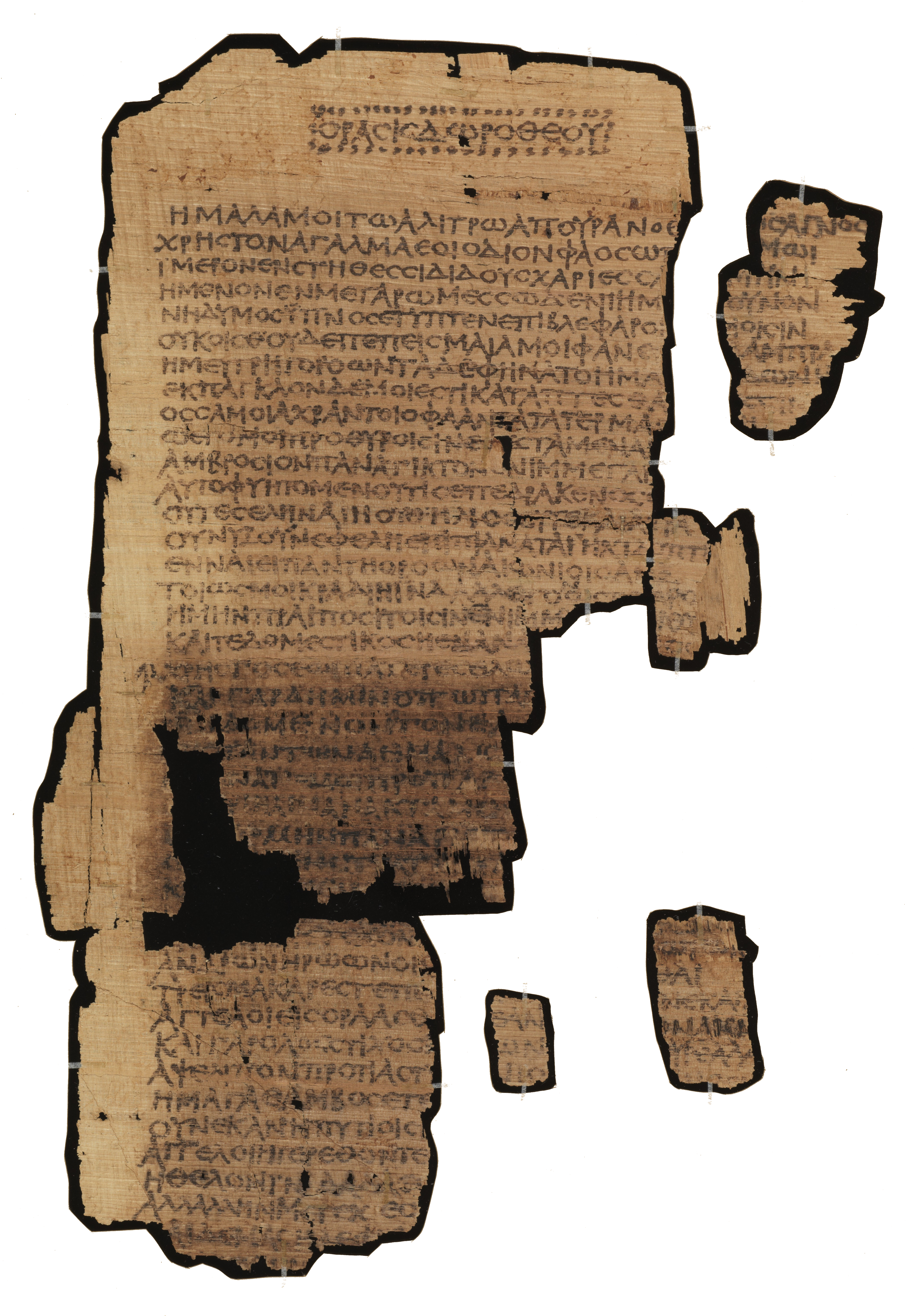 Page of the papyrus of the Vision of Dorotheos, a c. 4th-century Greek poem, lines 1-41. Part of the Bodmer Papyri, specifically the Codex of Visions.